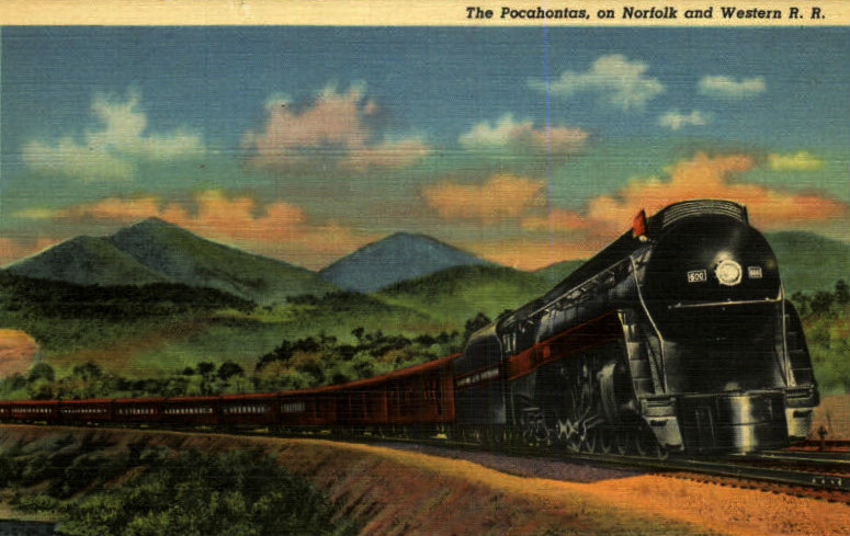 Postcard photo of the Norfolk and Western train "The Pocahontas" which traveled between Cincinnati and Norfolk, Virginia.